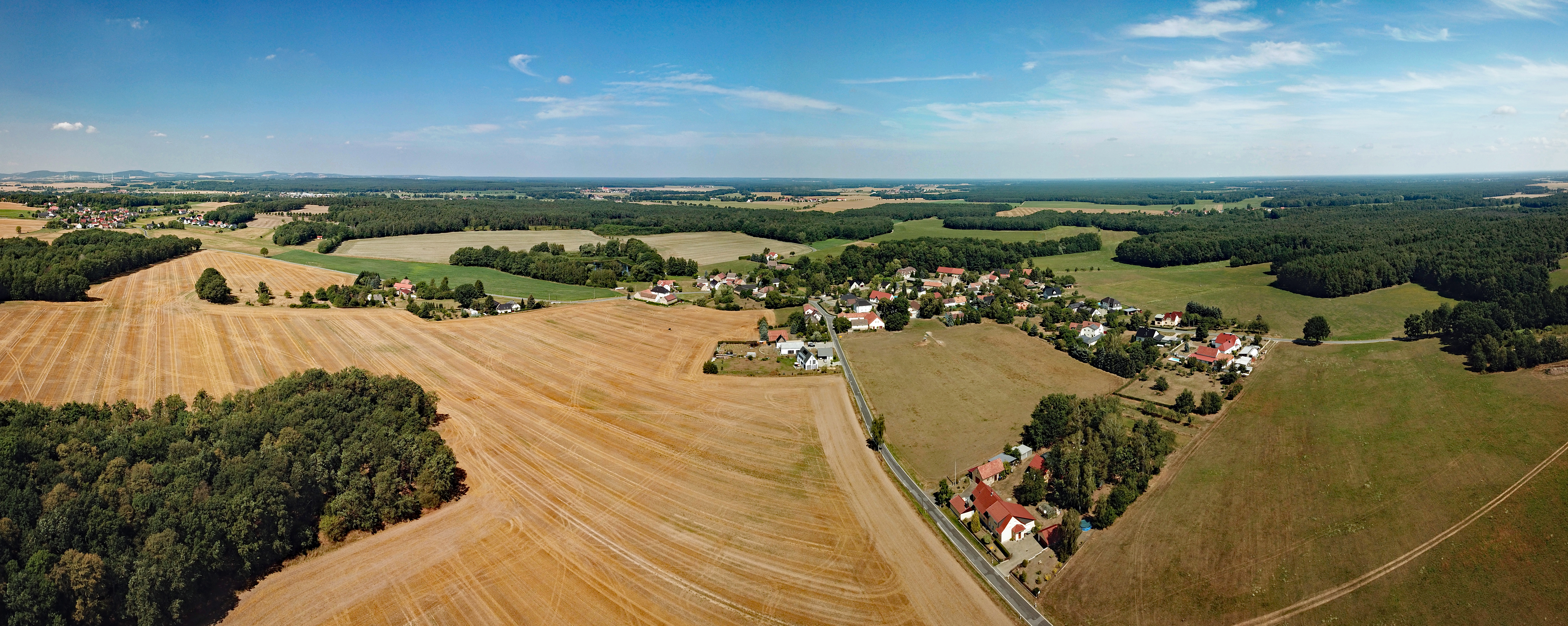 Doberschütz (Neschwitz, Saxony, Germany) Hornjoserbsce: Powětrowy wobraz Dobrošic